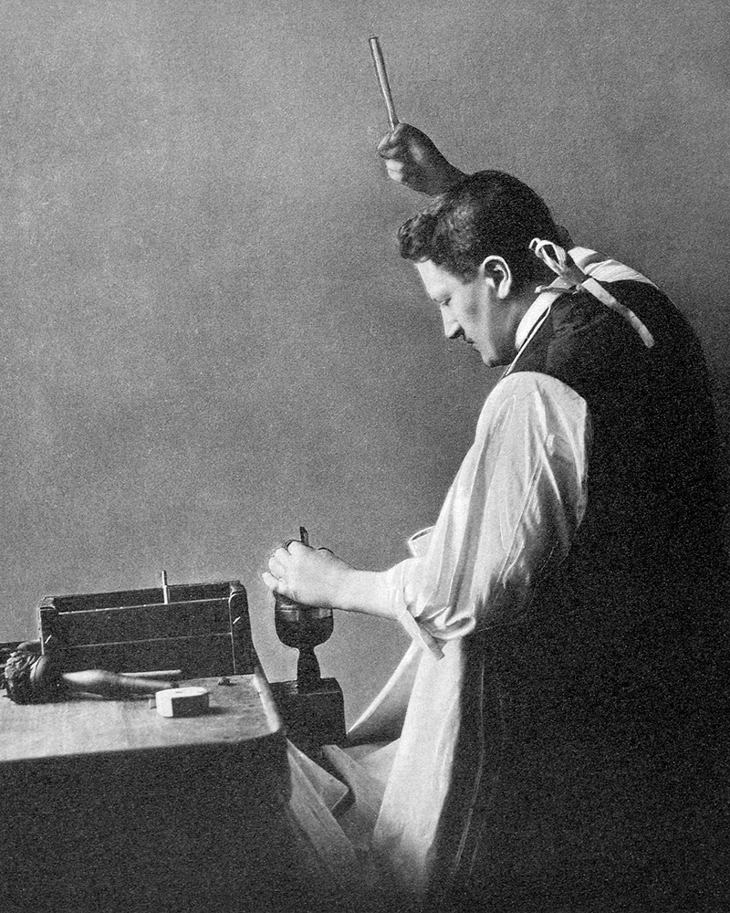 Joseph Asscher using a hammer to make the first split of the Cullinan diamond.